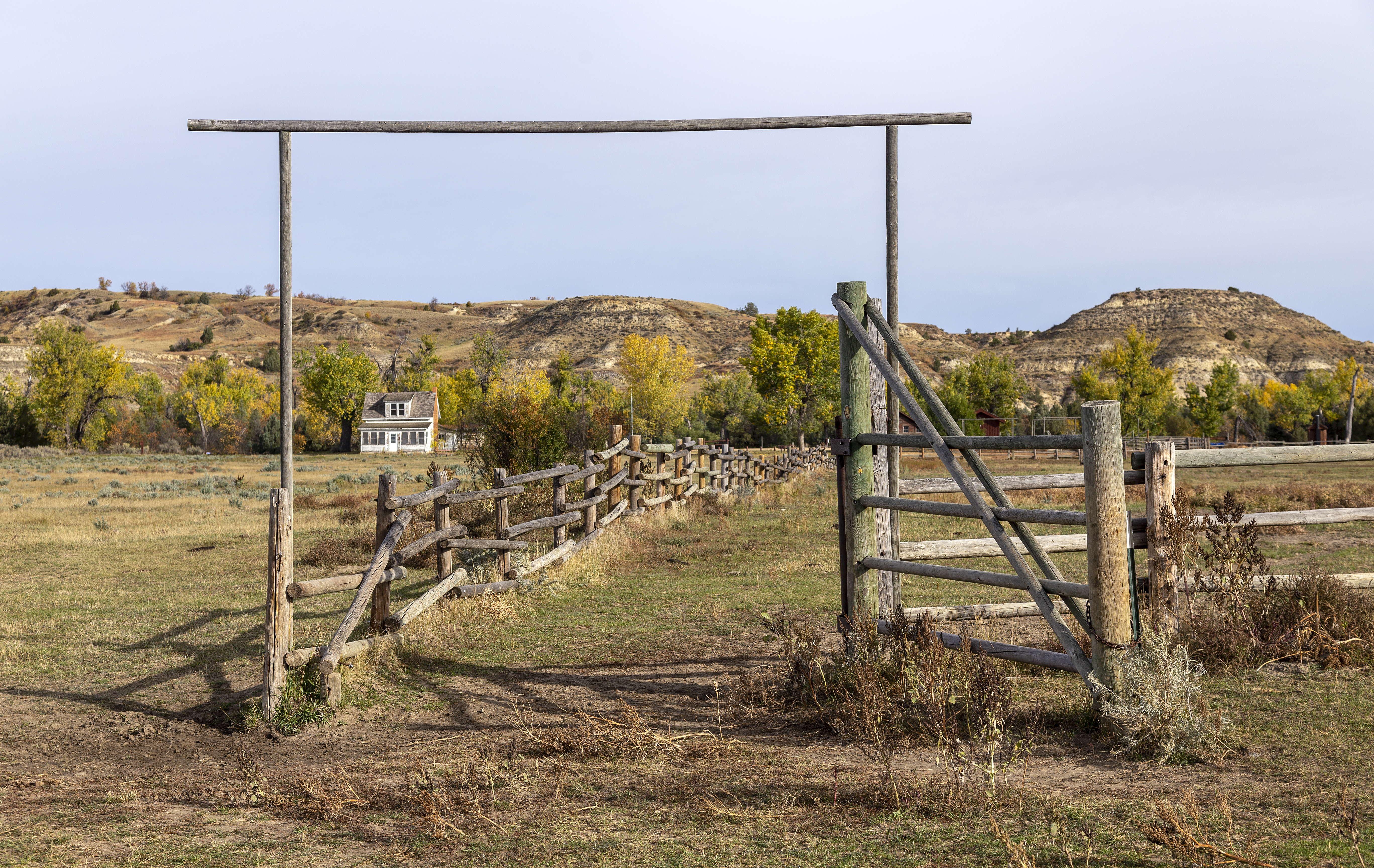 The Peaceful Valley Ranch complex in Theodore Roosevelt National Park, North Dakota, USA